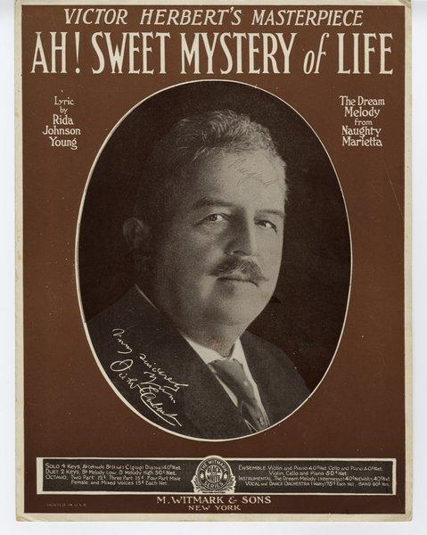 Sheet music from Naughty Marietta, 1910